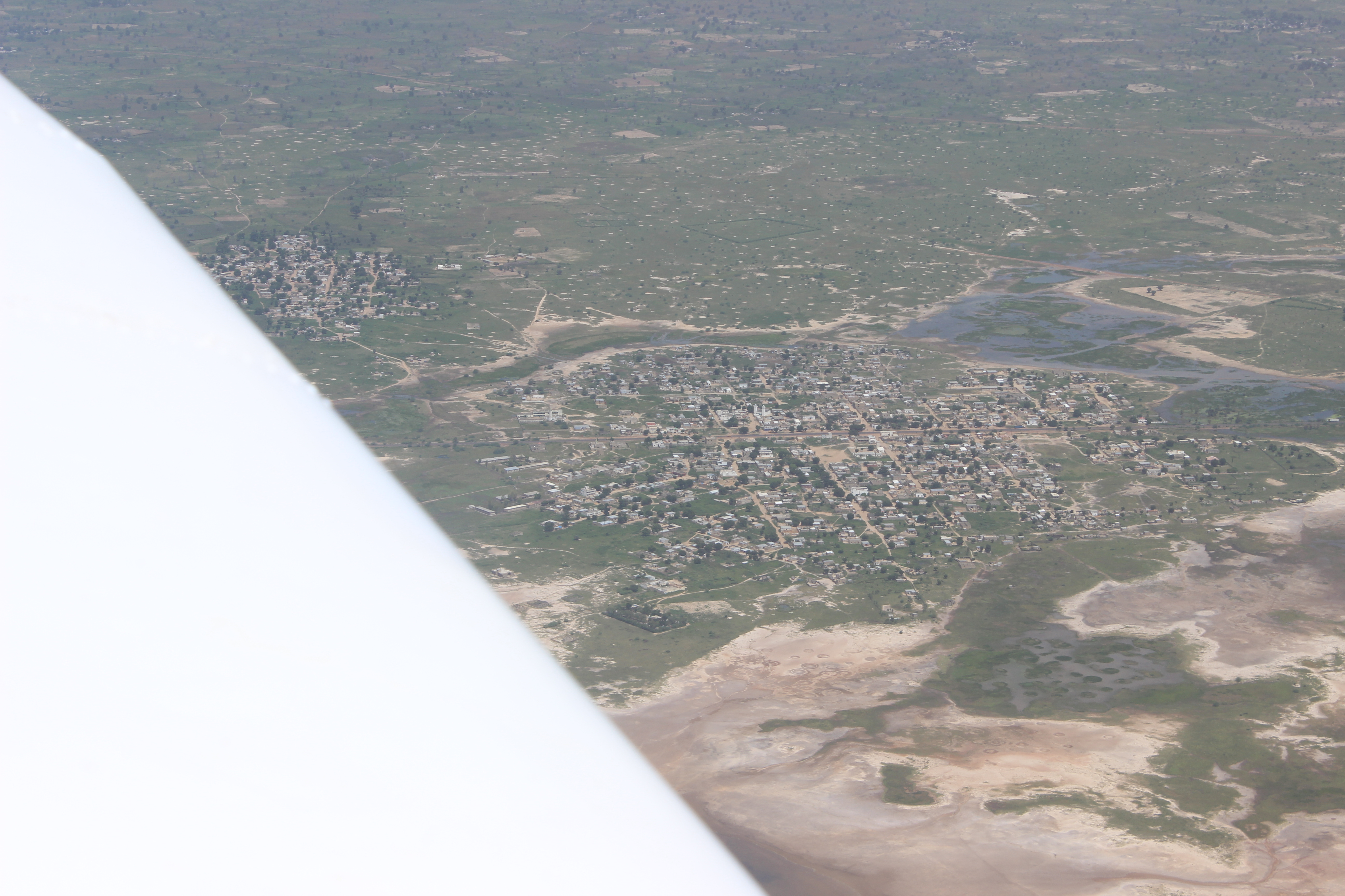 An old city named Kaolack, during an aerial tour above Senegal. Kaolack was a larger city but has less important role nowadays due to internal migration to the capital Dakar